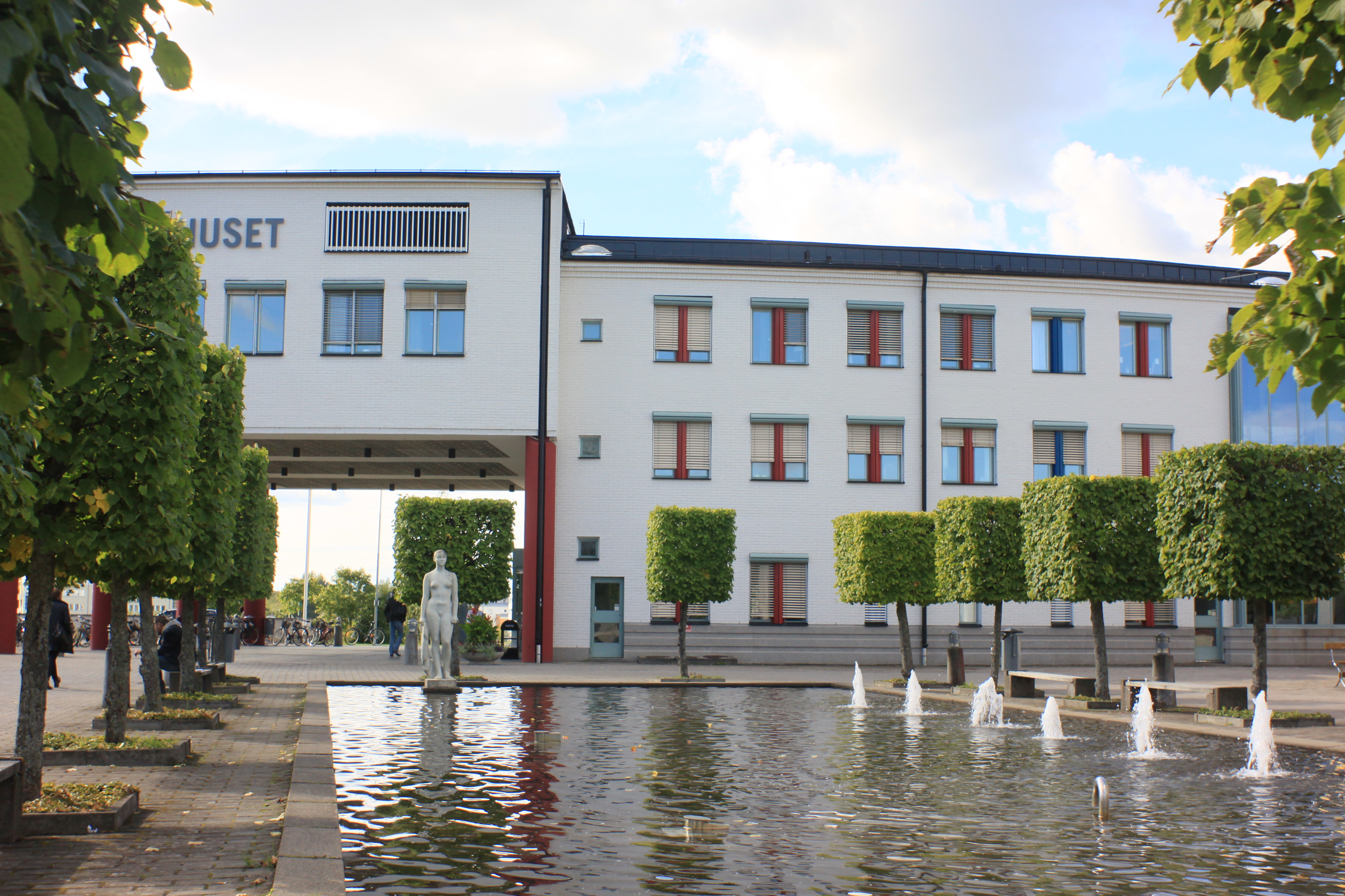 Poor in the Örebro University campus